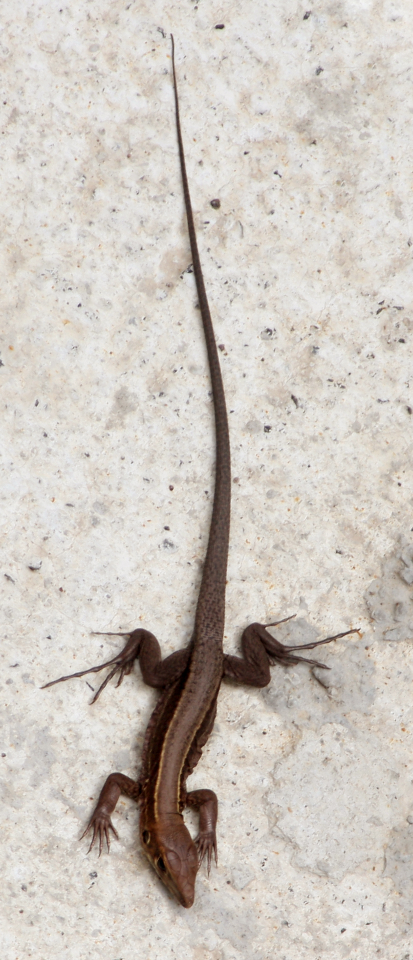 Juvenile Dominican Ground Lizard (Ameiva fuscata) viewed from above. Coulibistrie, Dominica.